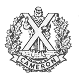 Cap Badge of the Queens Own Cameron Highlanders